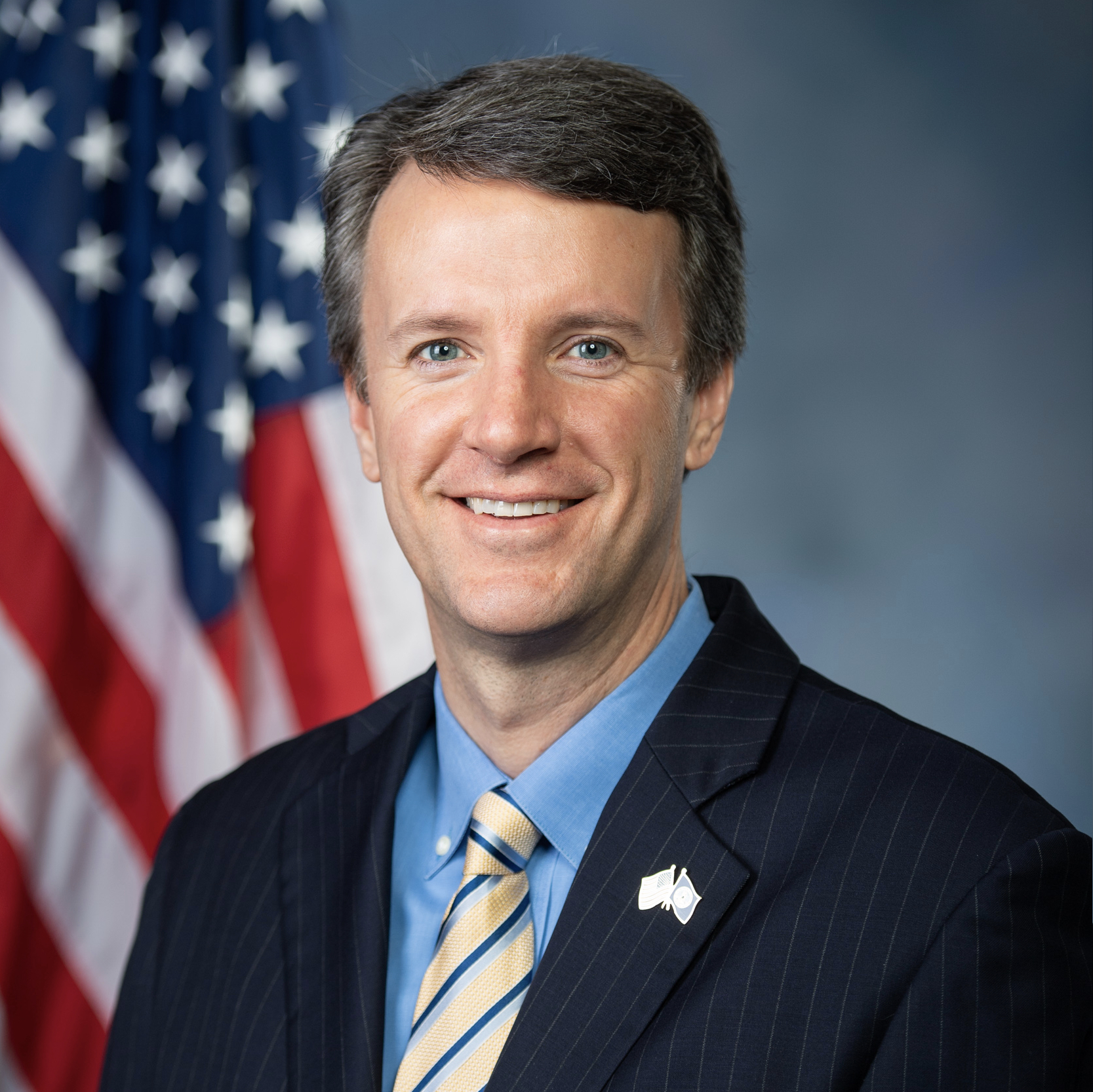 Ben Cline, member of the United States House of Representatives from Virginia.